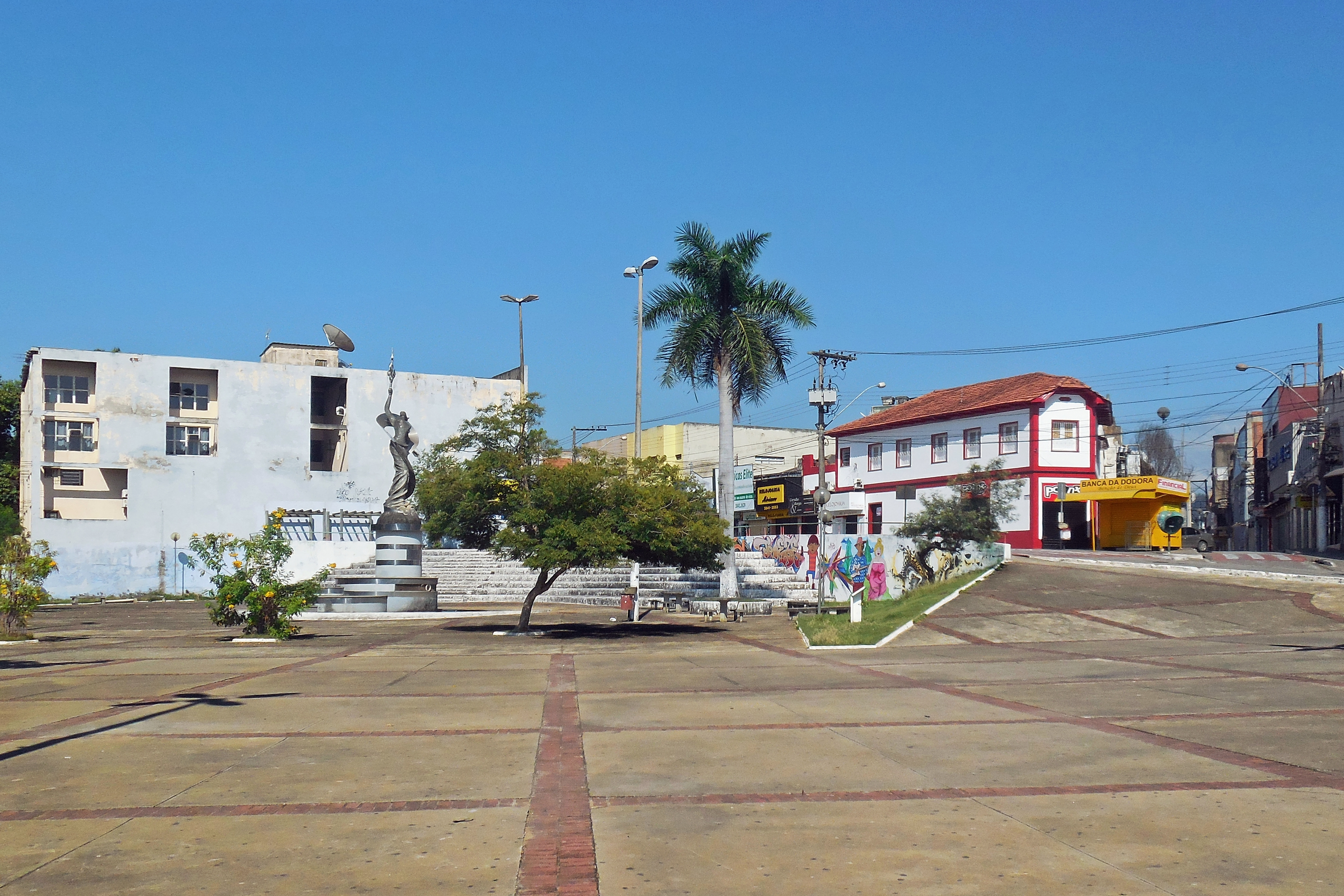 The "Os Cinco Elementos da Natureza" (five elements of nature) monument and the "Sobrado dos Pereira" (Pereira's House), in Coronel Fabriciano, Minas Gerais, Brazil.